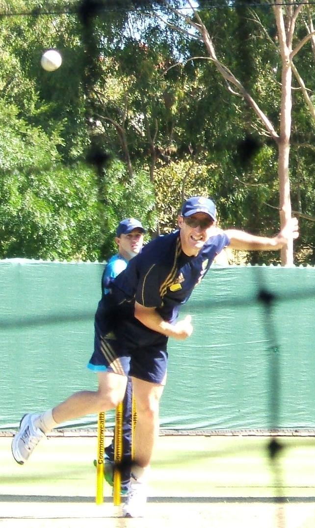 Dale Steyn at a training session at the Adelaide Oval